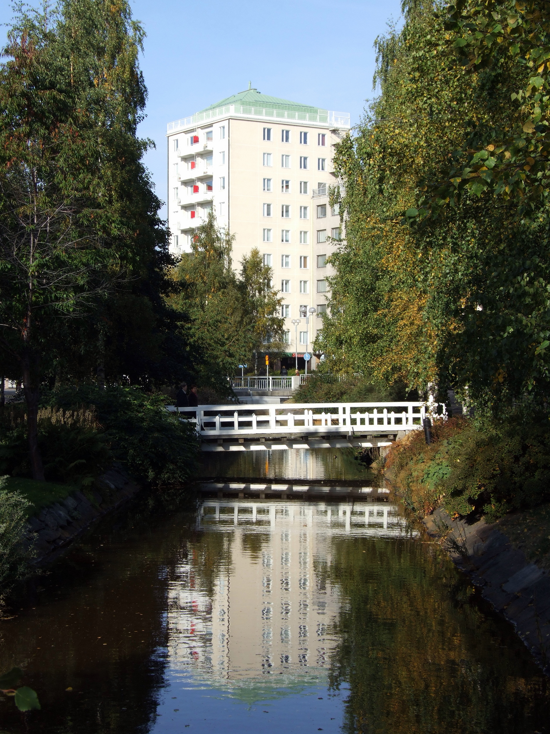 Vakuutustorni (Insurance Tower) building, in Oulu, Finland, has been built in 1957 and designed by architect Uki Heikkinen the founder of Uki Arkkitehdit architect office. The park in the foreground is Otto Karhi Park.